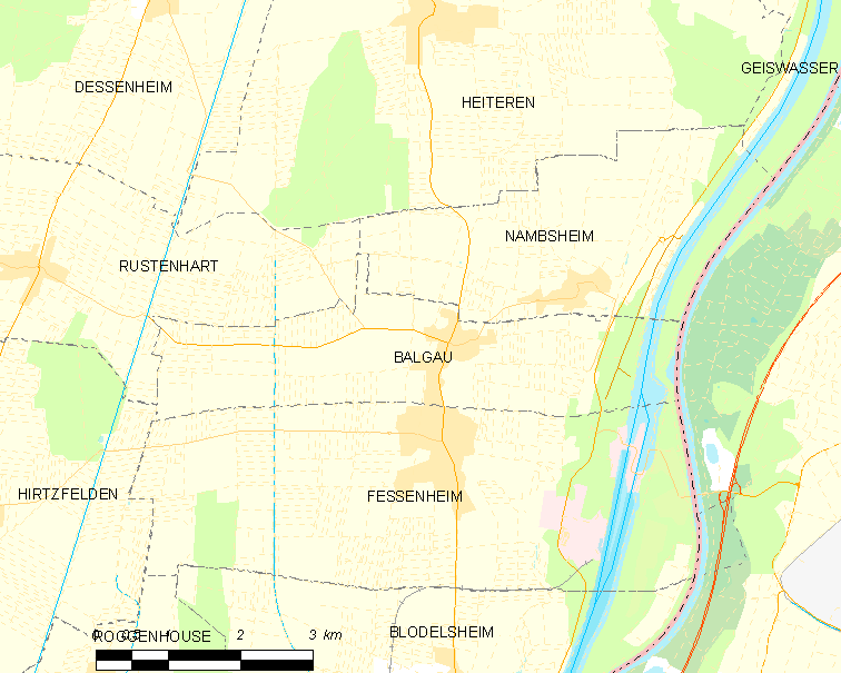 Map of French municipality